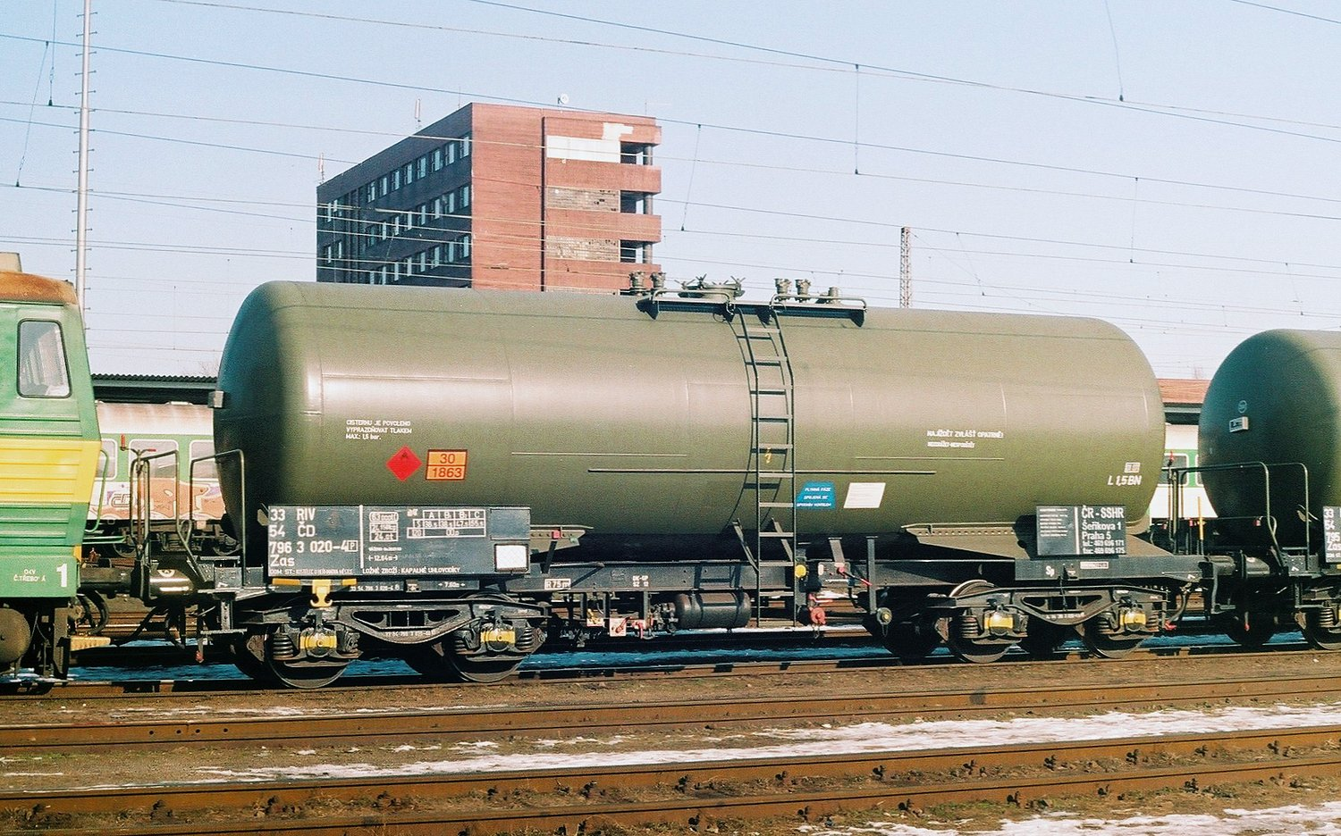 Zas 33 54 796 3 020-4 (built by Waggonworks in Studenka, Czechoslovakia in 1984 (except the tank)), owned by The Administration Of State Material Reserves in Prague, Czech republic (car ex Czechoslovak Army), used for the transport of the JET A-1 jet-engine kerosine. Spotted in Pardubice mainstation (Czech rep.) (02/2004).